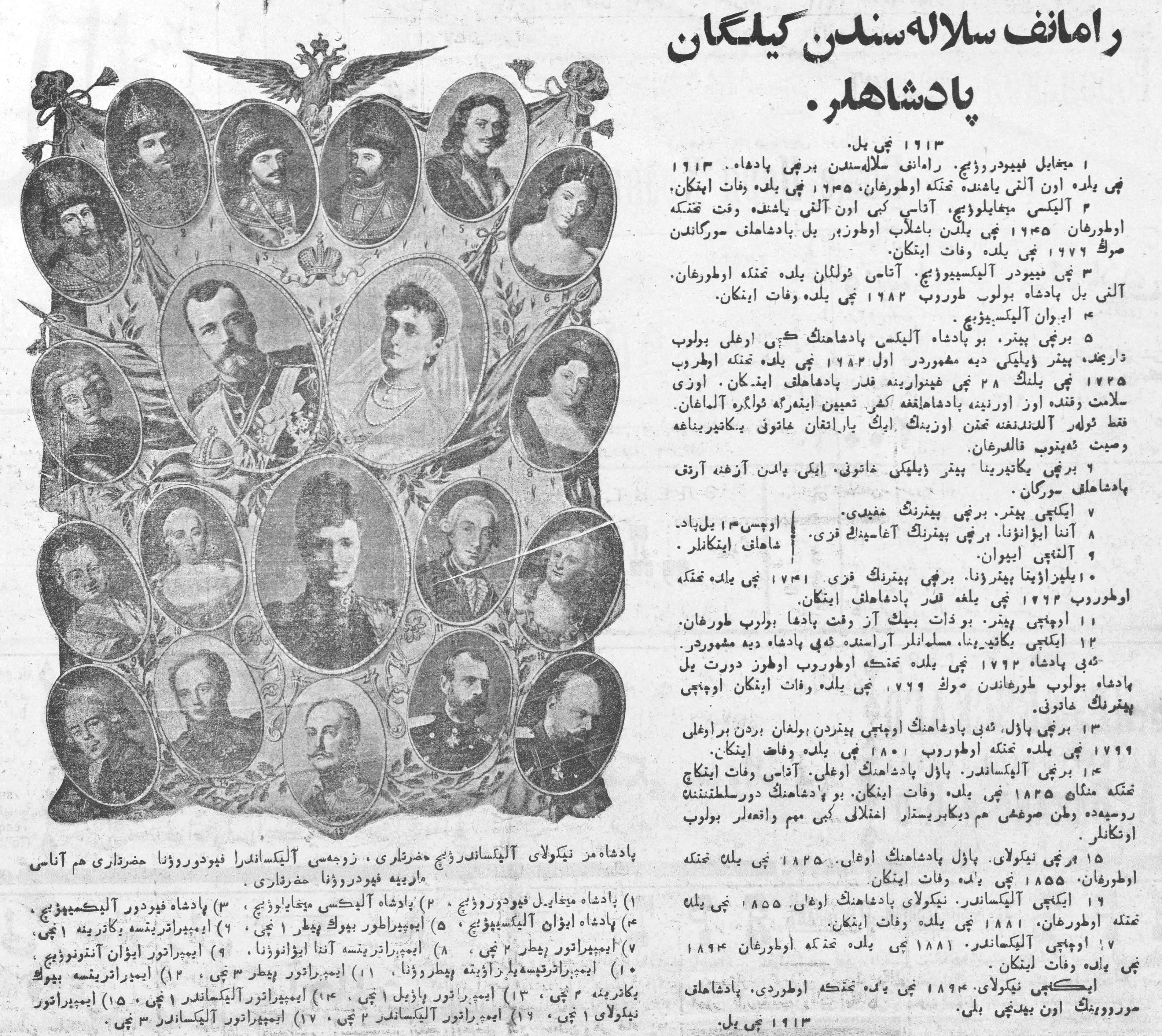 Detail of publications devoted to the 300th anniversary of the reign of the Romanov dynasty, the newspaper of the Tatar newspaper "Bayanul hack" ("Clarifying the truth") (Kazan) (Bayanul hack. - 1913. - № 1186/21 of February /. - S. 2.).